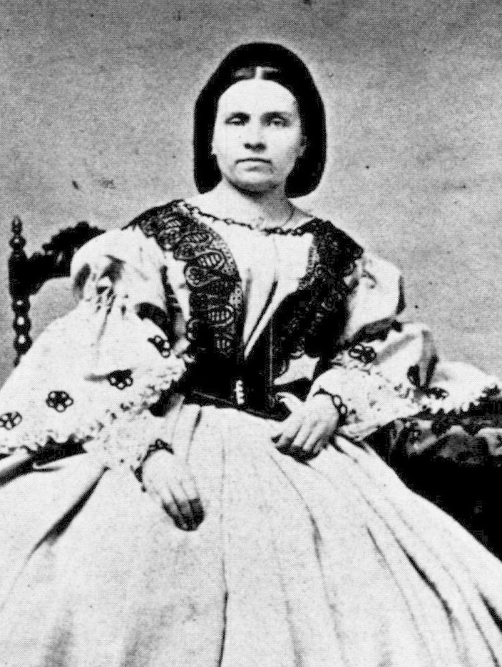 Photograph of Betty Pettersson (1838-1885), the first woman to study at a university in Sweden.